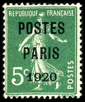 Precancel of Paris, France, 5 centimes, 1920.